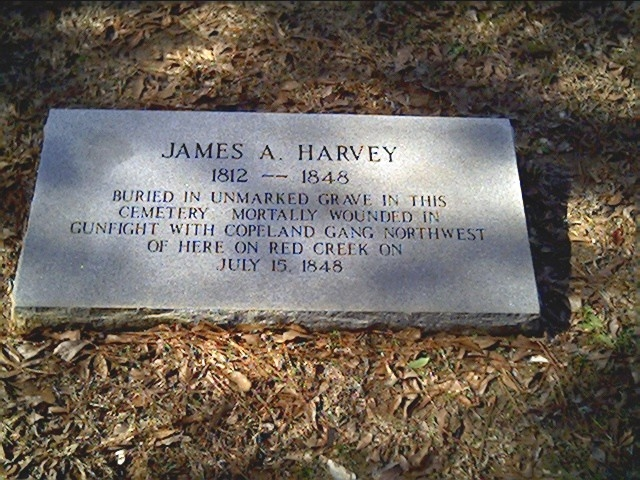 James A. Harvey died from wounds received during "The Famous Harvey Battle". He is buried in the Dale Cemetery located in northwestern Stone County, Mississippi. James Copeland was hanged for the murder.